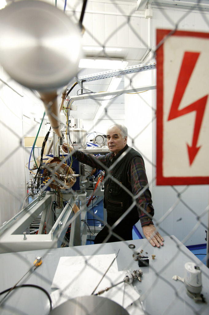 “Kozulin checking the experiment readiness of the supersensitive analyzer”. Eduard Kozulin, head of the nuclear reaction laboratory of the United Nuclear Research Institute, checking the experiment readiness of the supersensitive analyzer of heavy atoms mass. Dubna (Moscow region